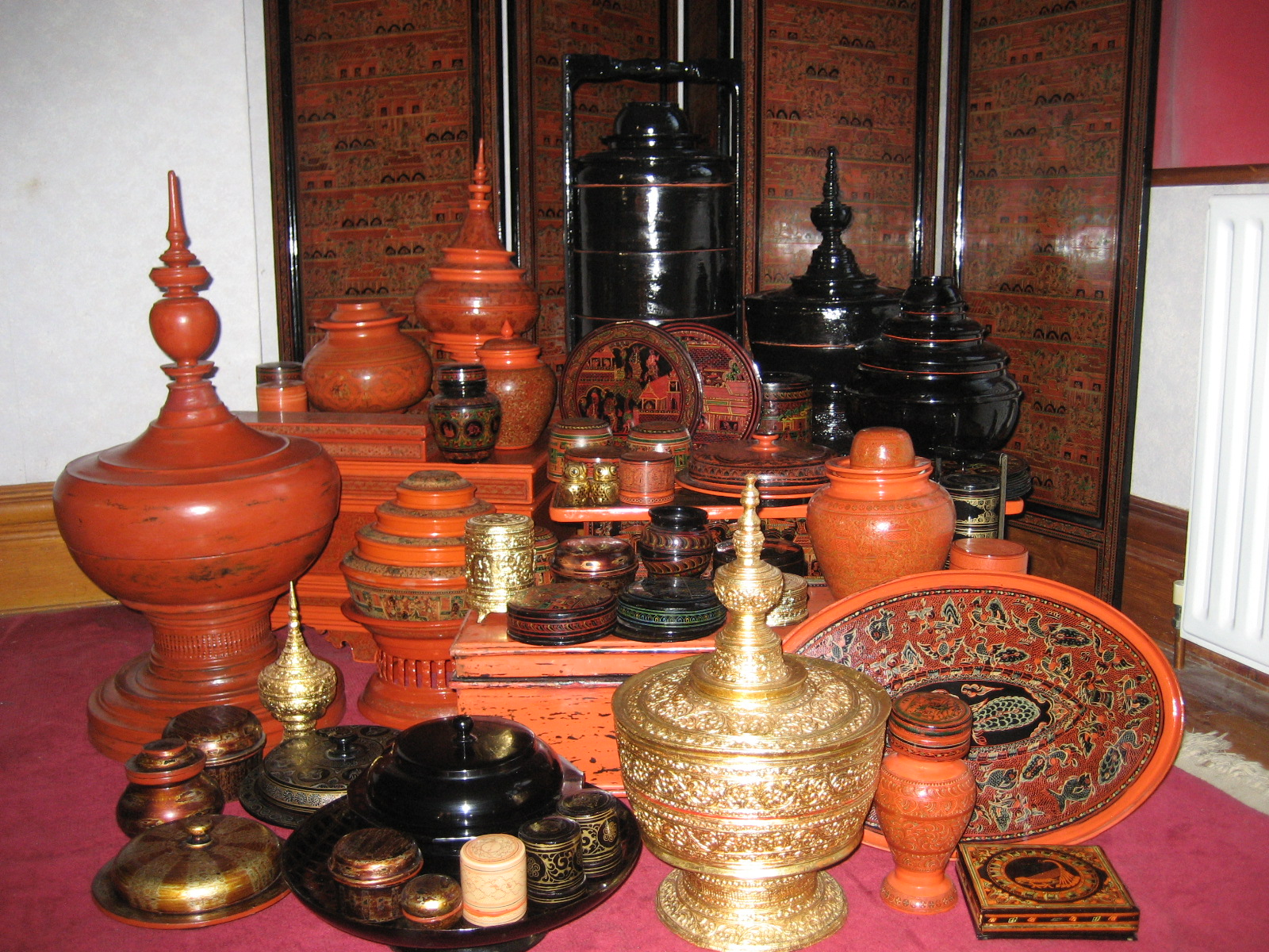 Burmese lacquerware - a private collection